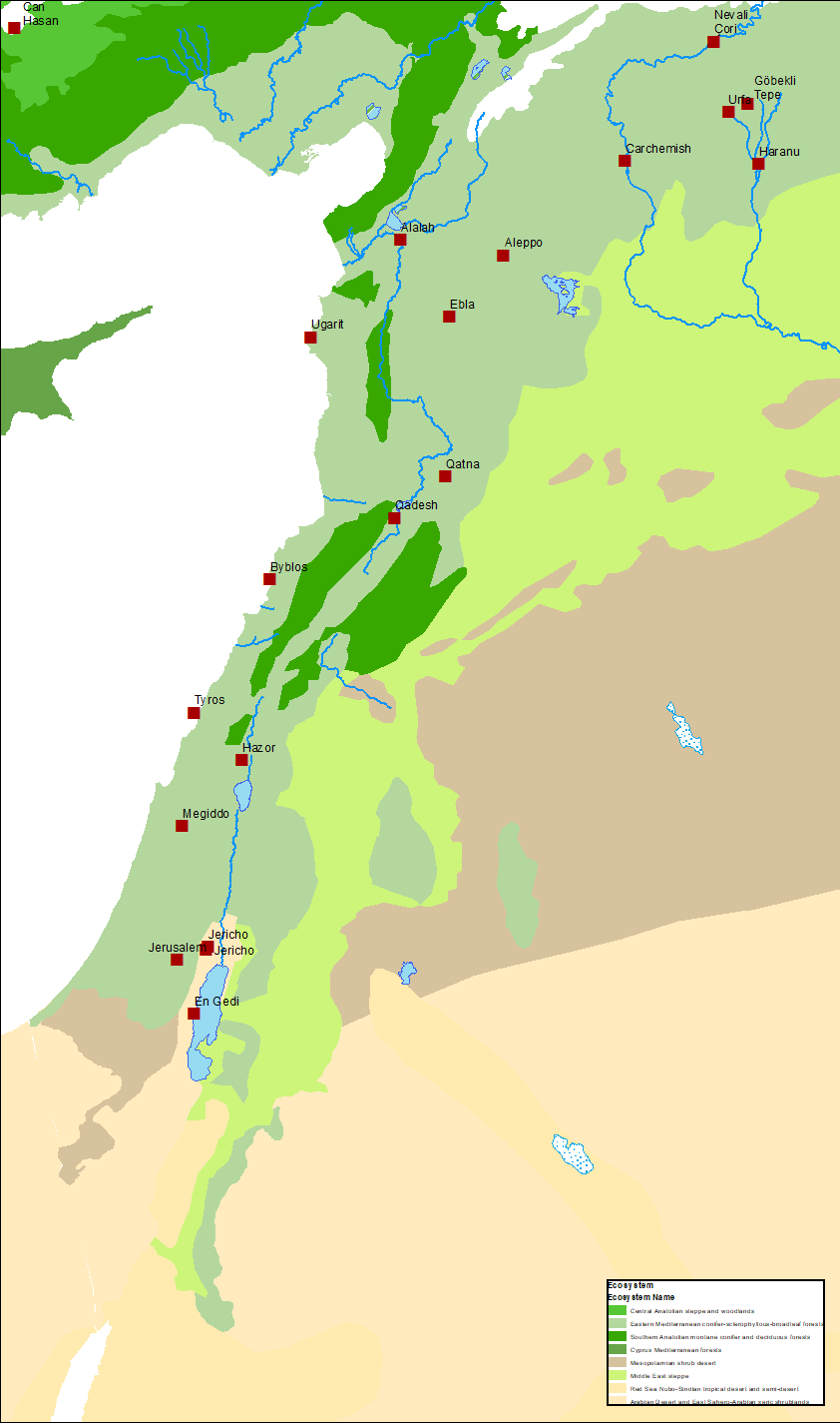 Canaan ecosystems raster version